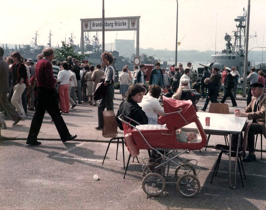 Naval Base Flensburg-Muerwik Open Day May 1984 Brandenburg Port